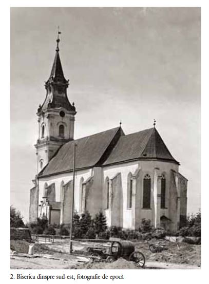 Biserica reformata din Tasnad - fotografie de epoca